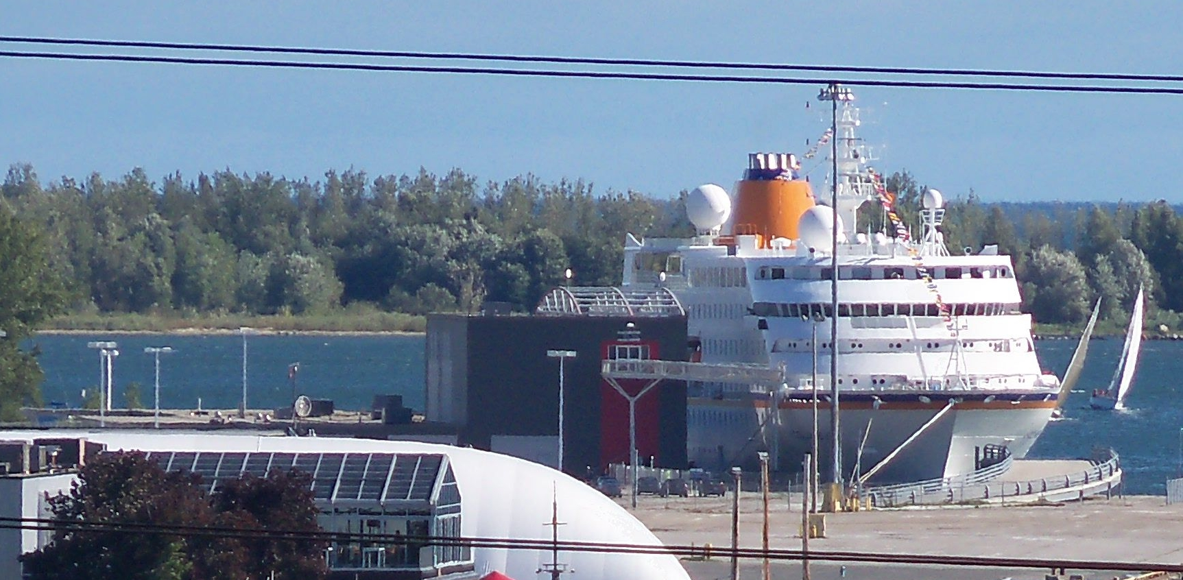 This cruise ship is moored at the International Marine Passenger Terminal, which was once the international ferry terminal for the fast ferry between Toronto and Rochester. Rochester is a city that has been in long economic decline for decades -- some say due to failed Republican Presidential candidate Dewey, who was then Governor of New York. Rochester was the largest city in New York that didn't vote for Dewey. He is said to have used his authority as Governor to make sure the new interstate highways bypassed Rochester. Rochester was counting on the ferry revitalizing its decaying downtown. Its ferry terminal was right downtown, as was ready in time for the first ferry run. Toronto, on the other hand, was not firmly committed to the ferry. This ferry terminal is long taxi ride from downtown, isolated in the former portlands. And the terminal wasn't ready on time. This allowed a smaller highspeed ferry that connected cities in Michigan and Wisconsin to claim the title of first fast ferry on the Great Lakes. The fast ferry was only in service for a year or two. After the ferry was retired the customs building served as the set for a TV show about an elite border squad.